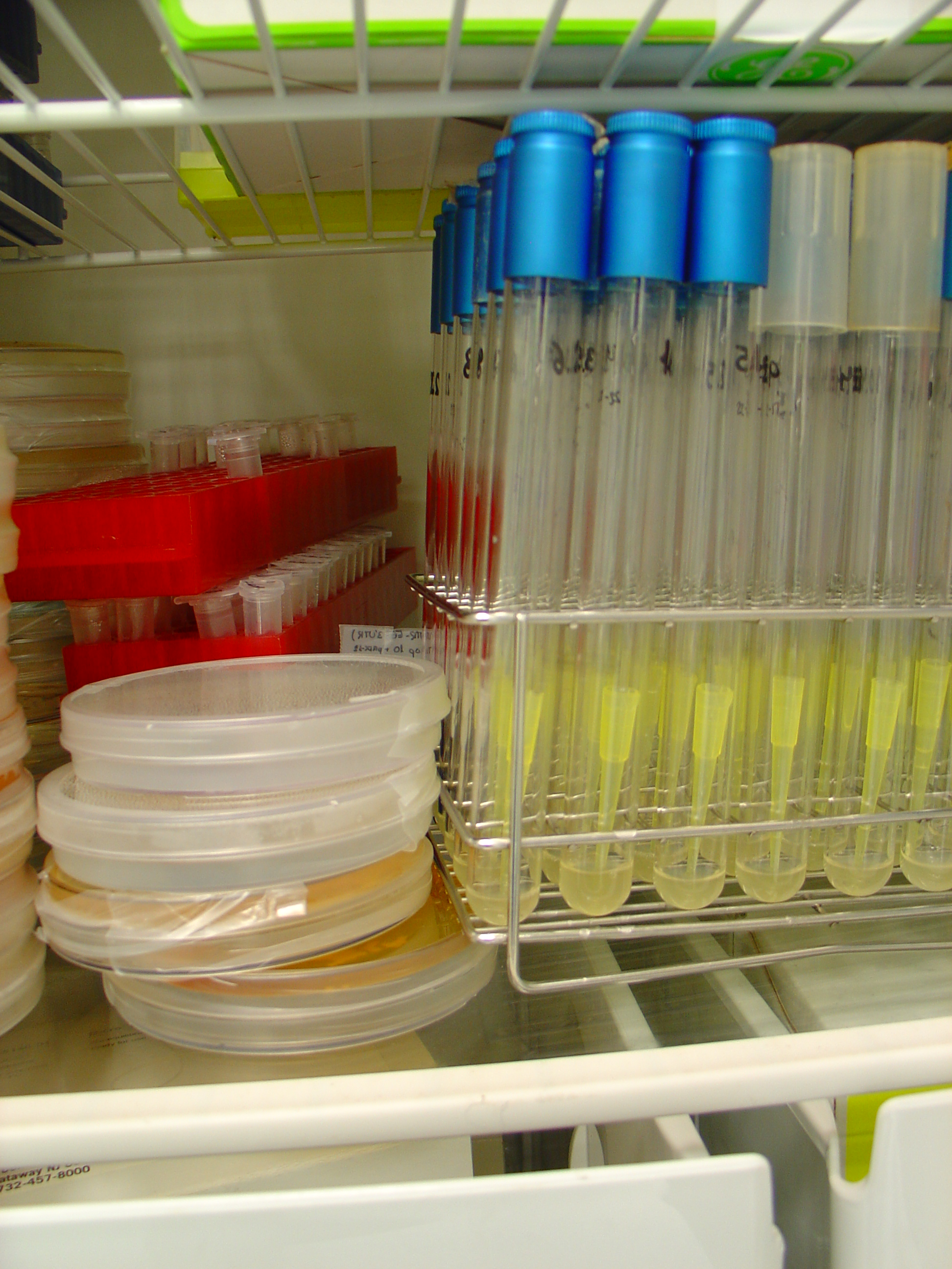 Genetics lab refrigerator: eppendorf racks and solid and liquid cultures (agar Petri's plates, tubes)